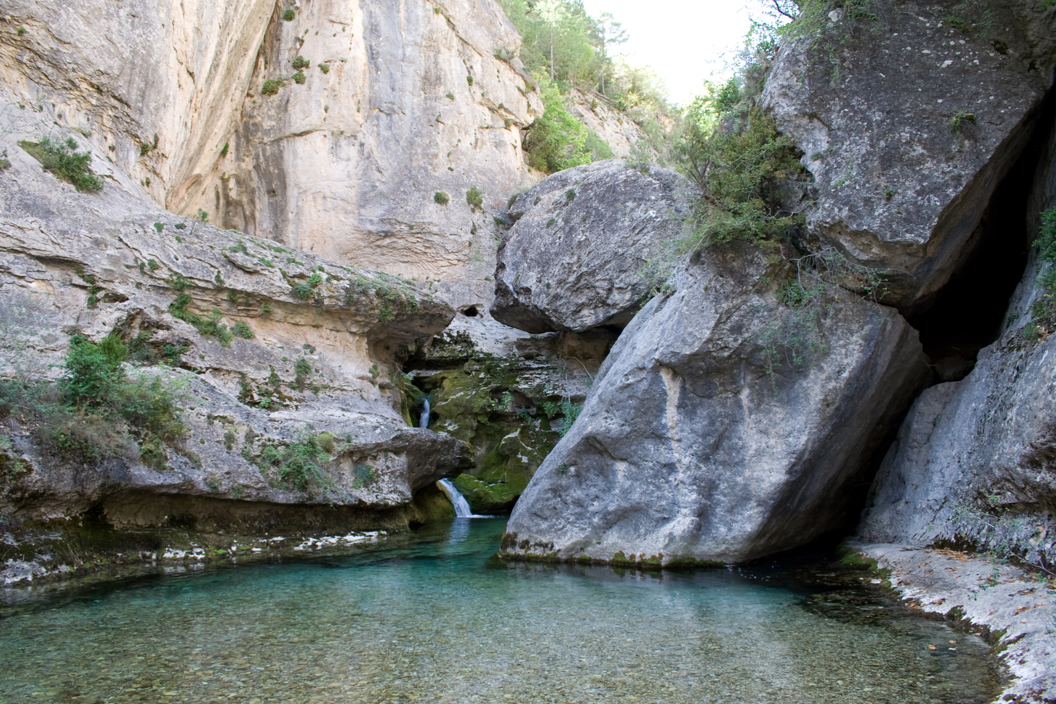 Source of Pitarque river (Teruel)